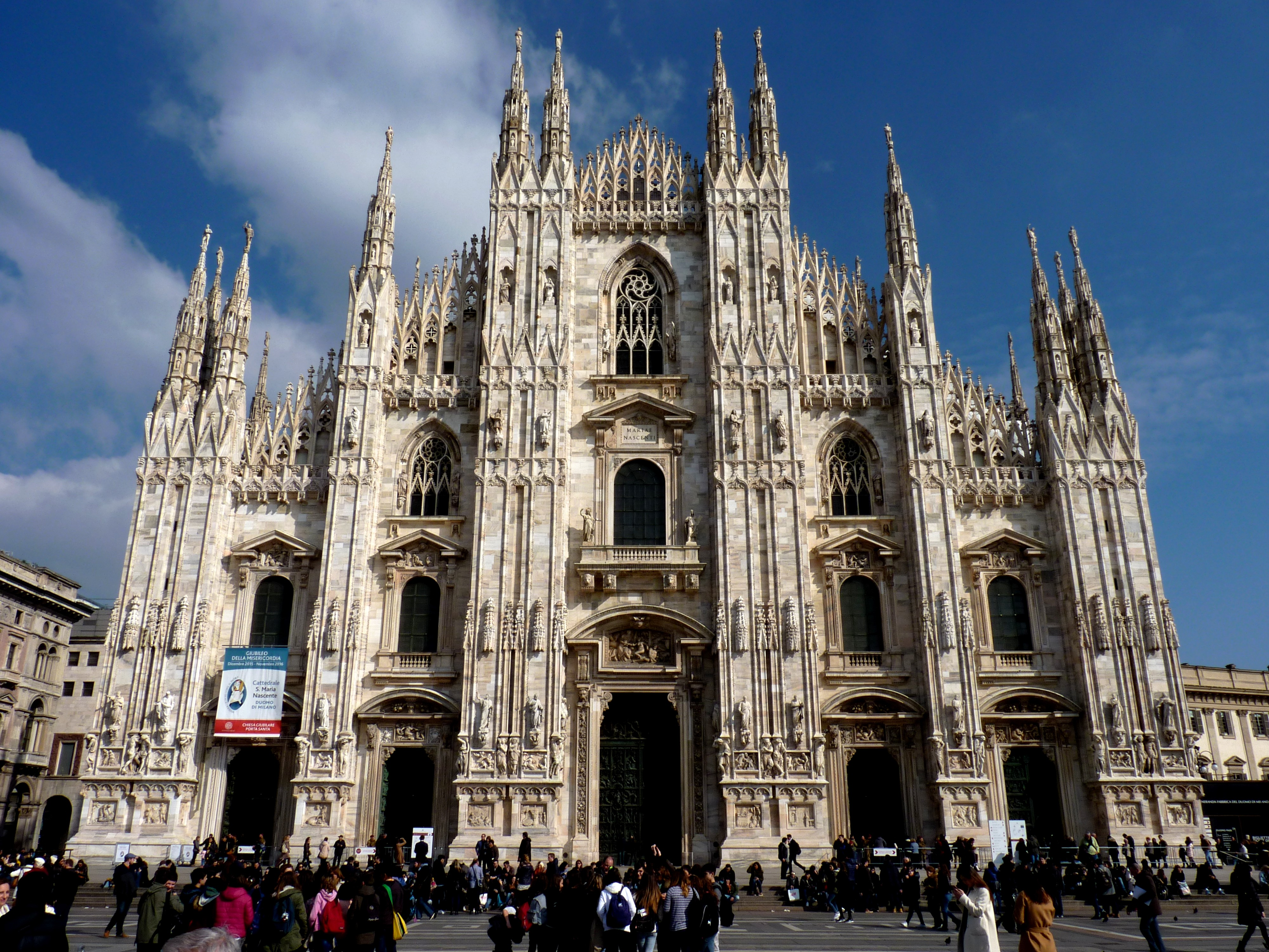 Milan Cathedral (Italian: Duomo di Milano) is the cathedral church of Milan, Italy. Dedicated to St Mary of the Nativity (Santa Maria Nascente), it is the seat of the Archbishop of Milan, currently Cardinal Angelo Scola. The Gothic cathedral took nearly six centuries to complete. It is the 5th-largest church in the world and the largest in Italy.